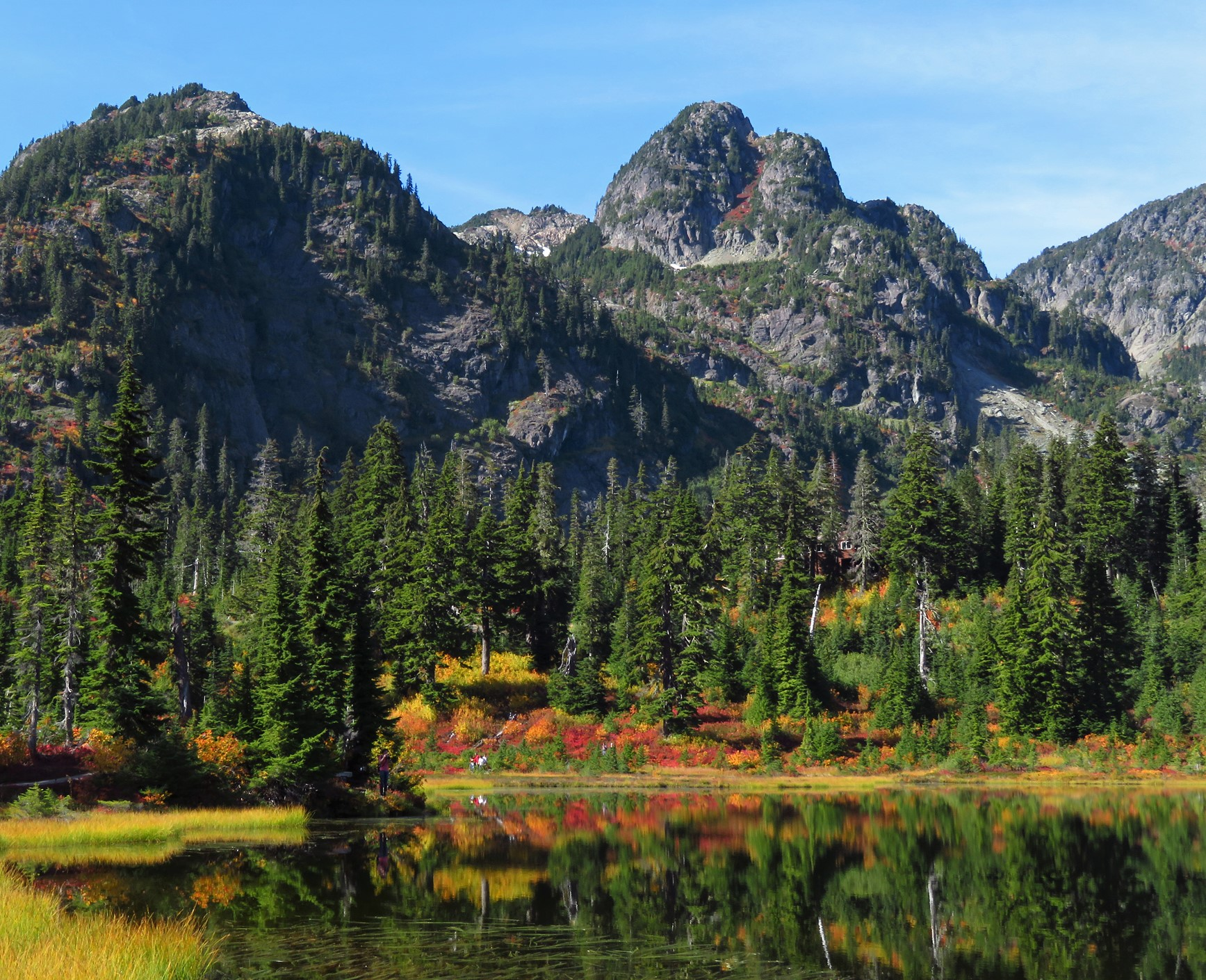 Herman Peak at Heather Meadows near Artist Point